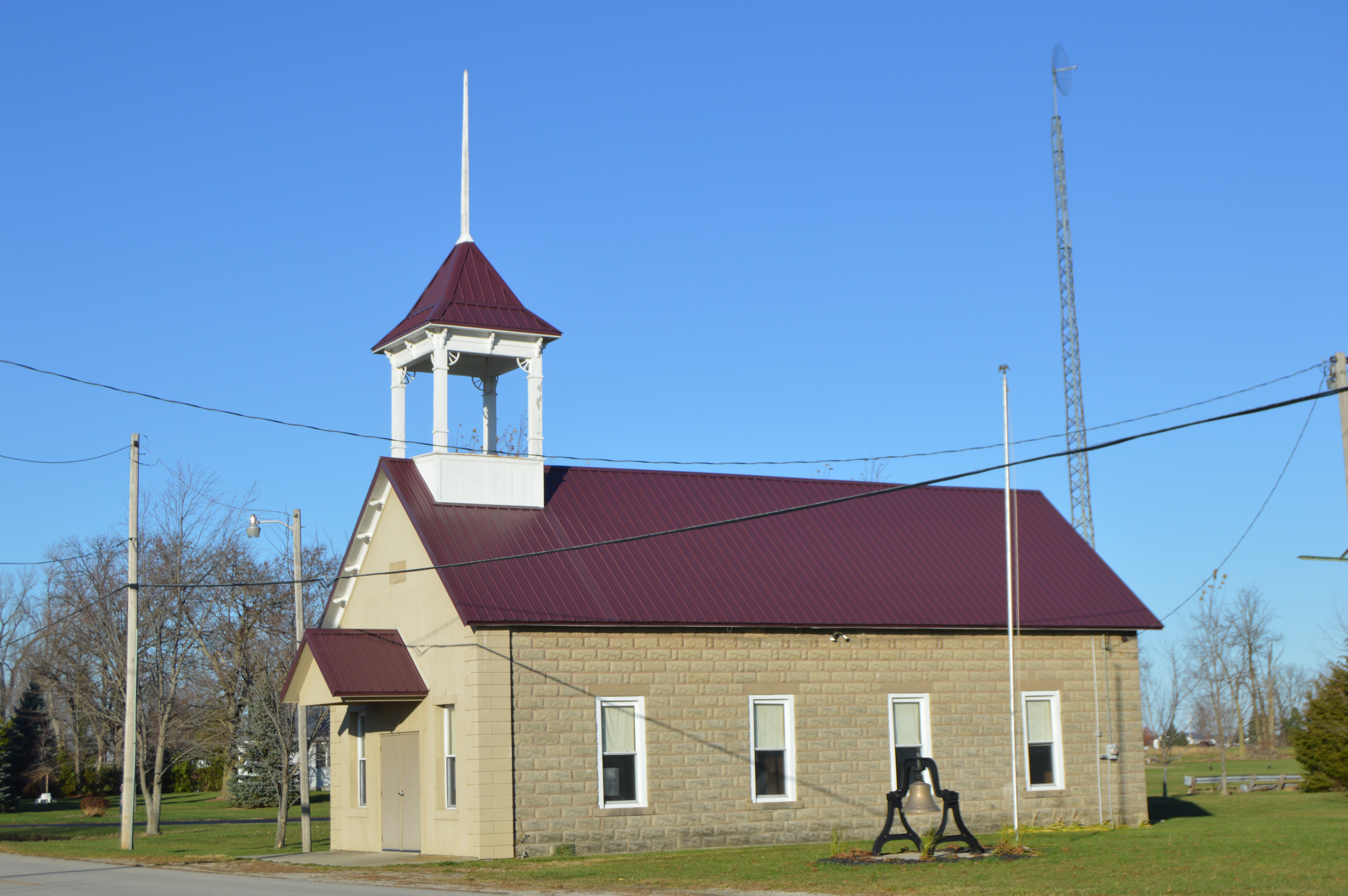 Southern side and front of the town hall in Broughton, Ohio, United States. It was built in 1904.